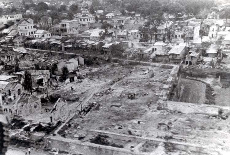 Aerial view of Huế in ruins after the Battle of Huế during the Tet Offensive.